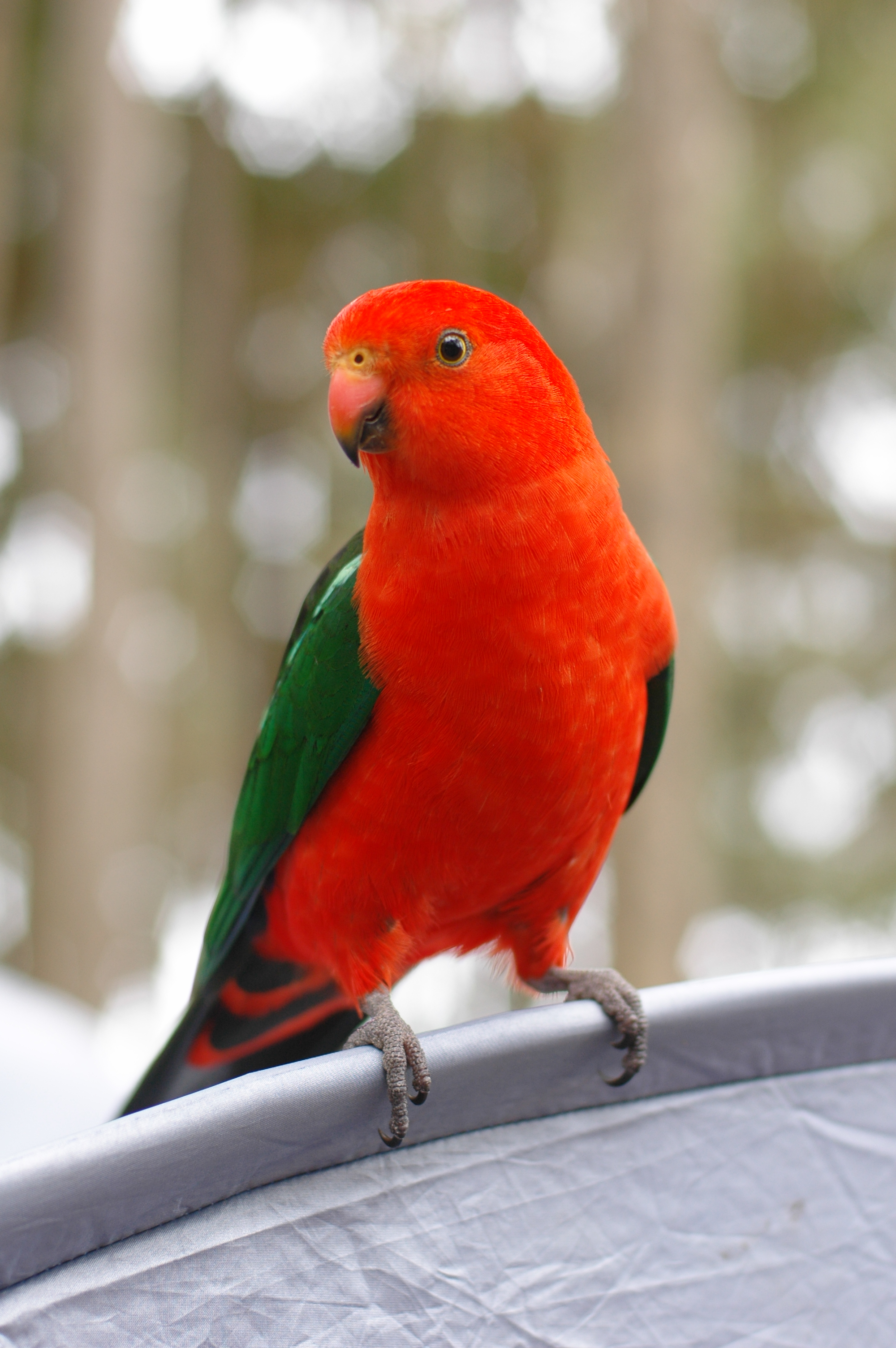 Australian King Parrot (Alisterus scapularis) in New South Wales, Australia.